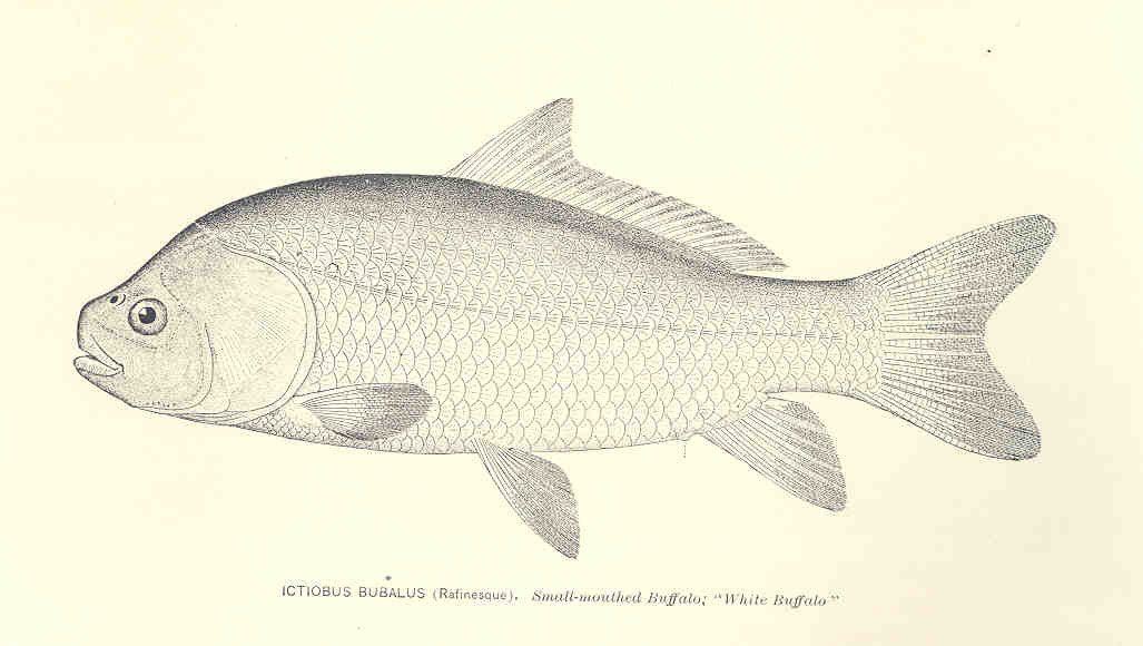 Ictiobus Bubalus (Ravinesque) Small-mouthed Buffalo; esque)White Buffalo' Subject: Smallmouth buffalo, Buffalofishes Tag: Fish